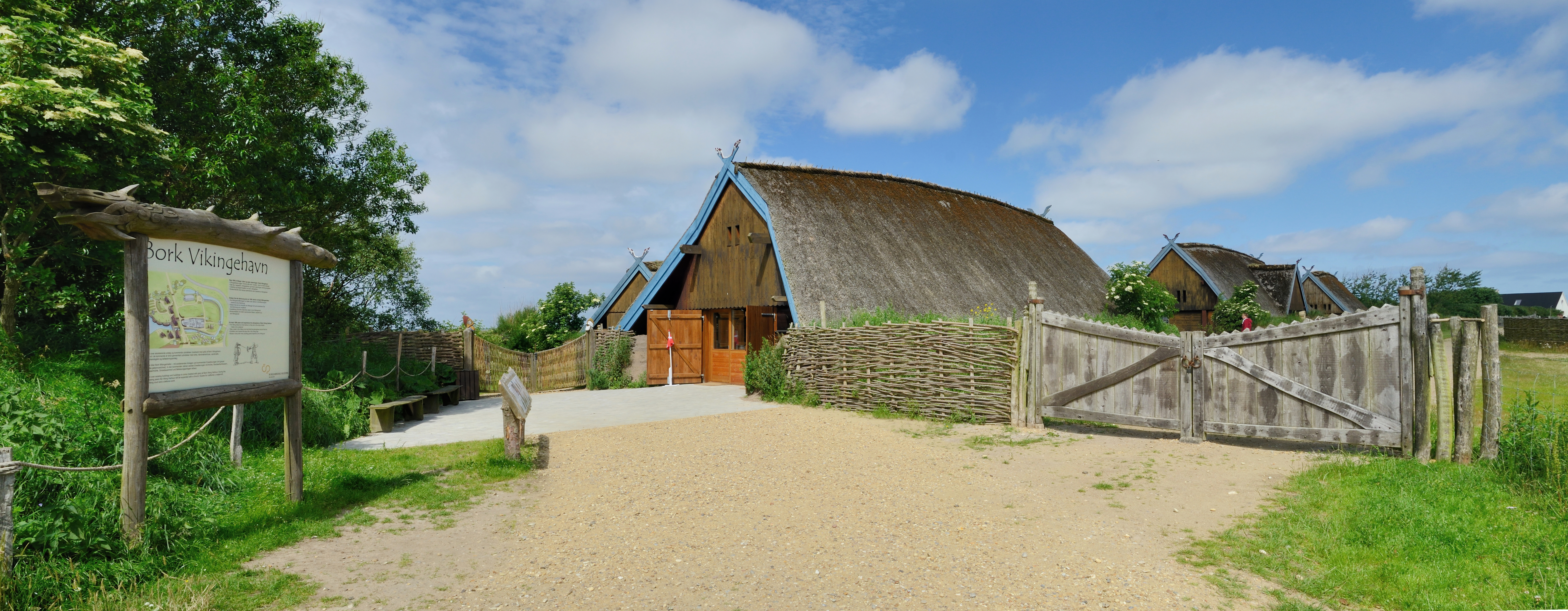 Bork Vikingehavn (Open-air museum)